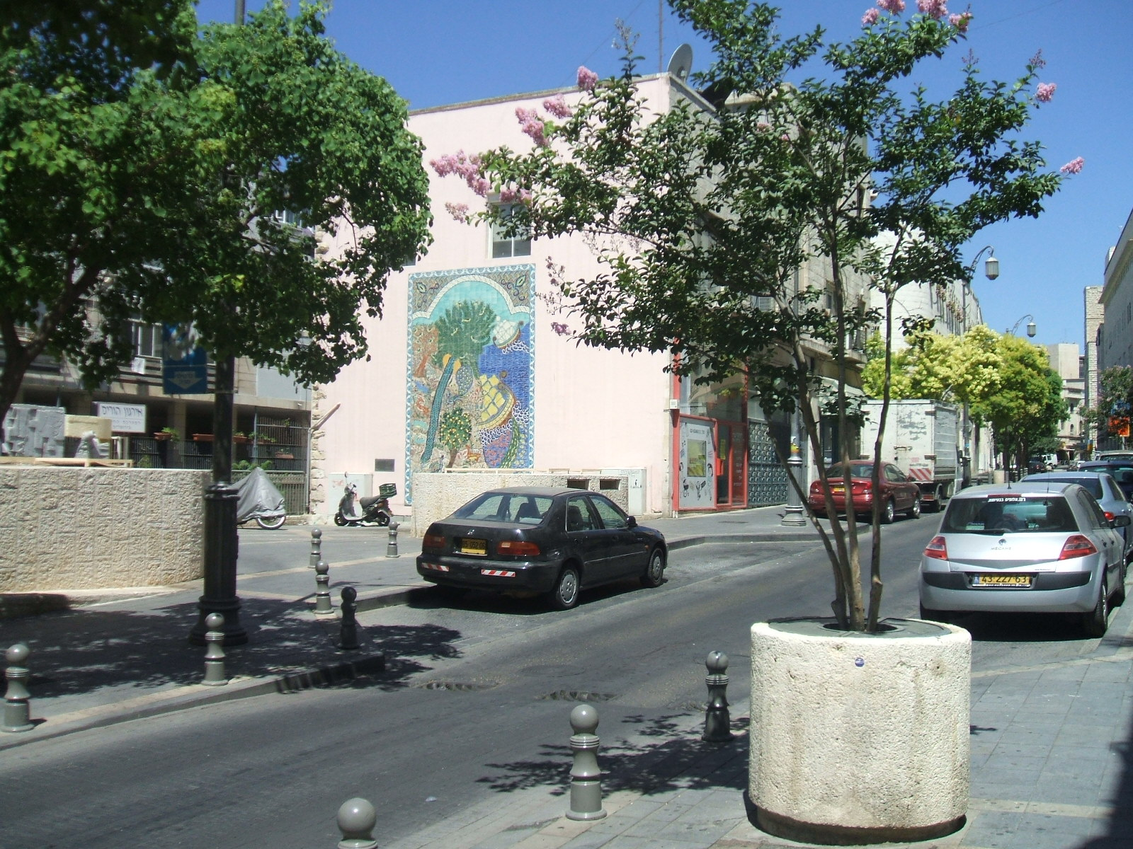 Coresh street (aka Koresh) in central Jerusalem